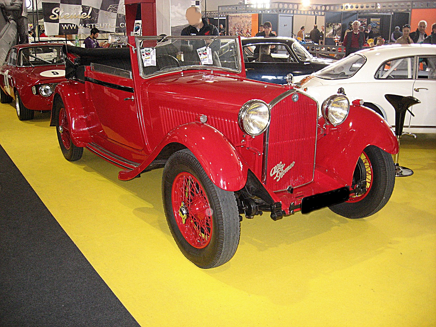 Subject: Alfa Romeo 6C 1900 Gran Sport (1933) Date:October 26th, 2008 Event: Auto e Moto d'Epoca 2008 Place/Country: Padova, Italy I release all rights in the public domain.